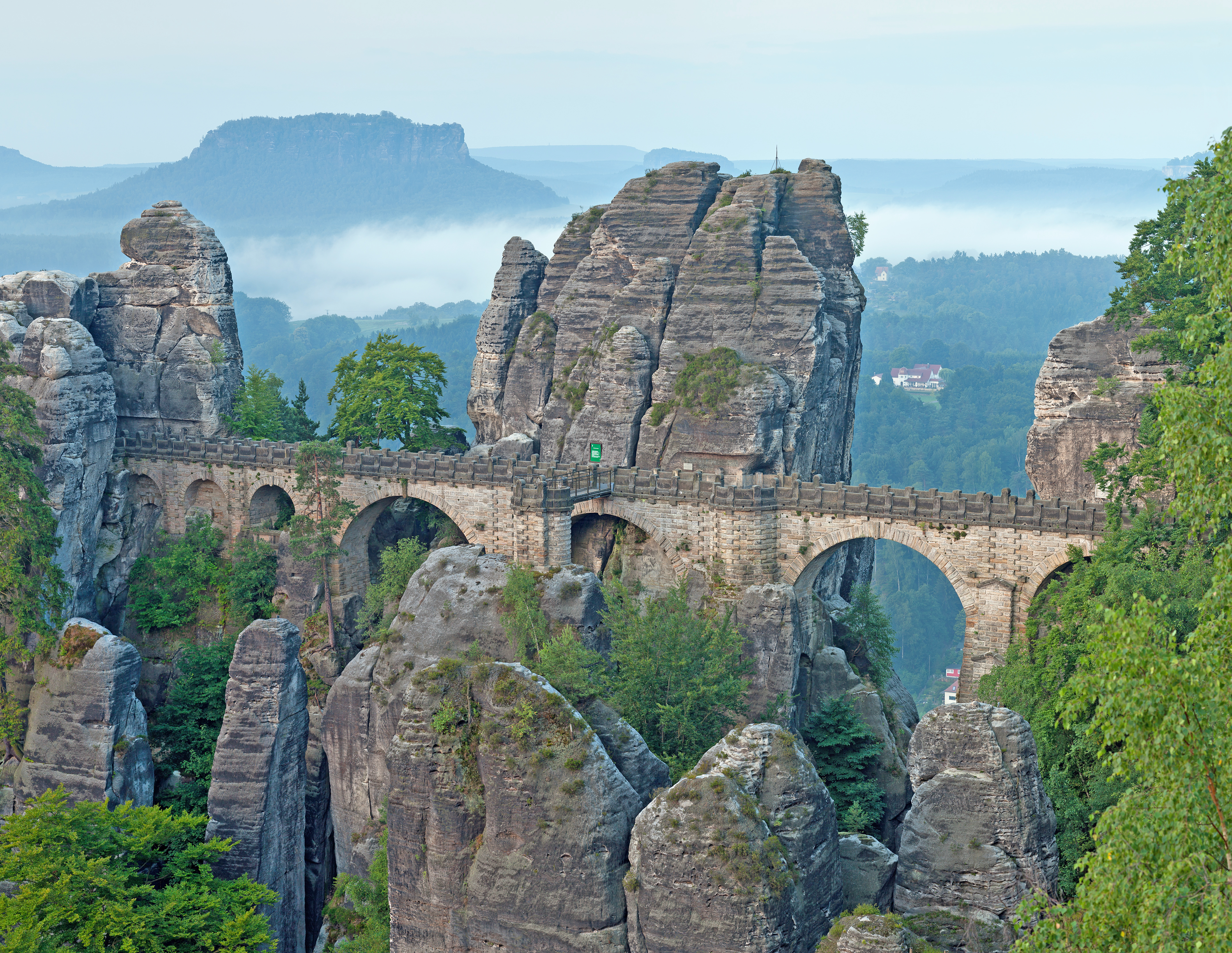 "Die Bastei (The Bastion), 2013 at Elbe sandstone mountains, „Sächsische Schweiz“ (Saxonia Swiss), Saxonia, Germany.